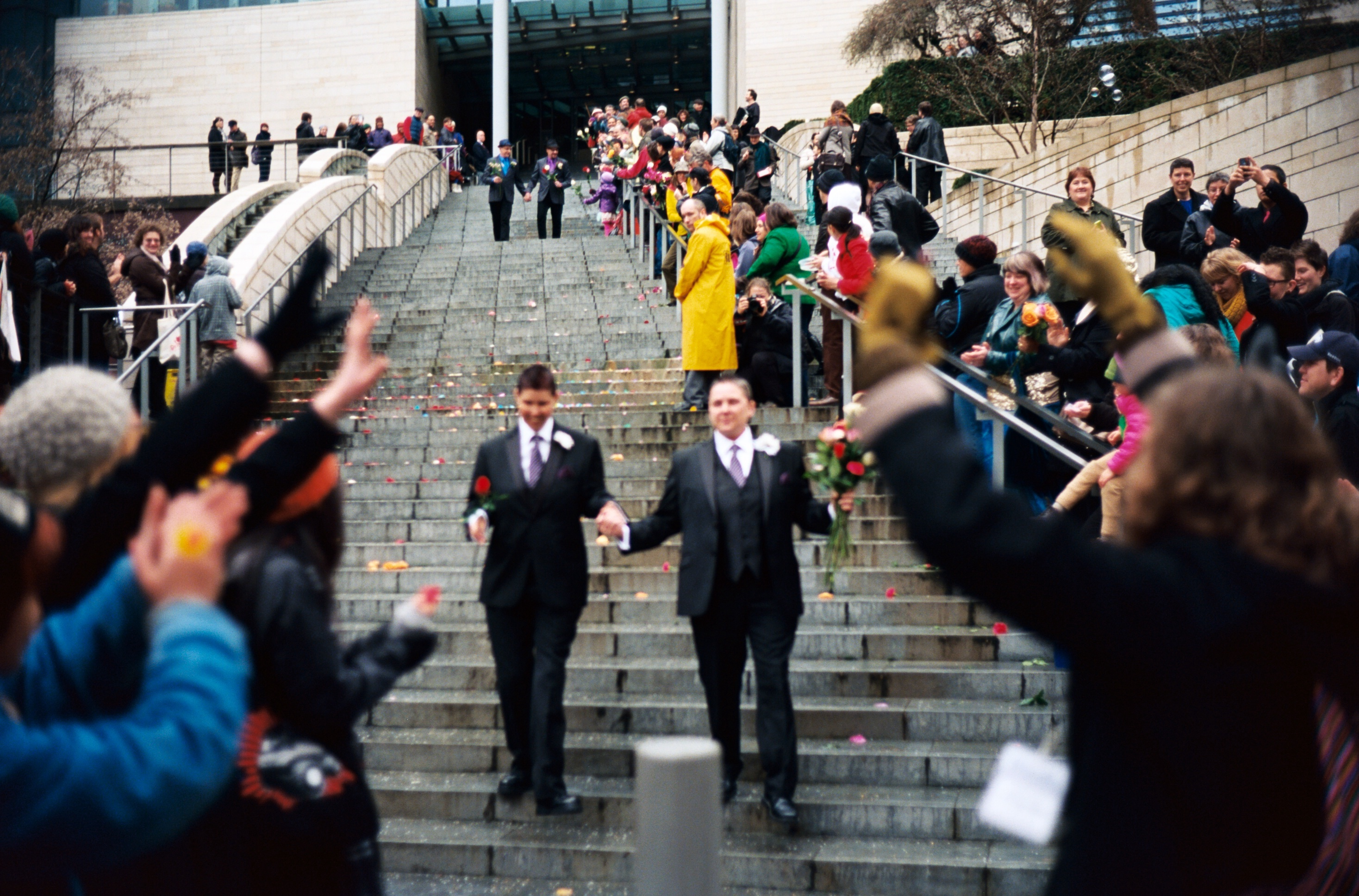 Recently married couples leaving the City Hall in Seattle are greeted by well-wishers on the first day of same-sex marriage in Washington state after enactment of Washington Referendum 74